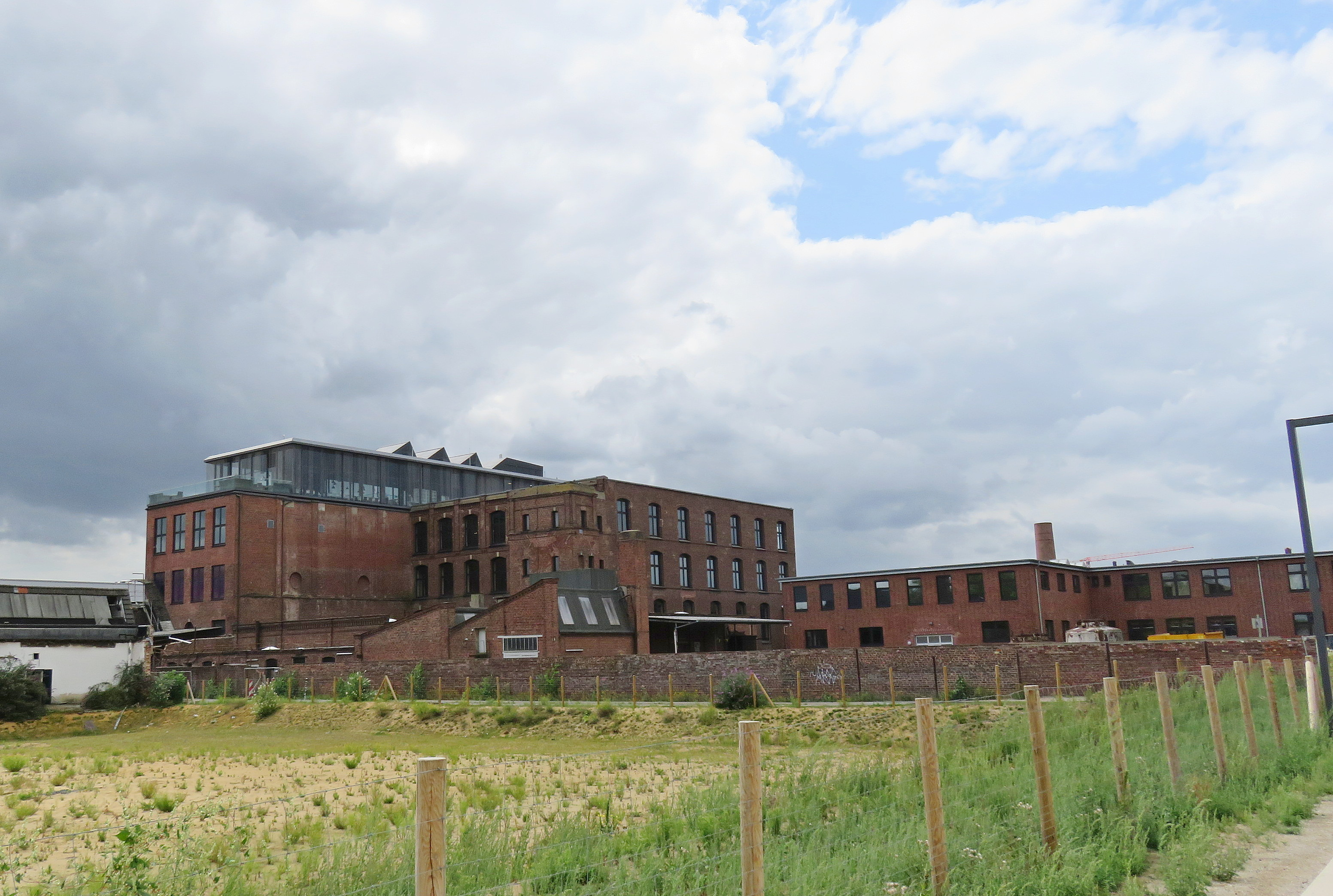 Textilmuseum in Bocholt (DE), the old building of the 'Spinnerei', now part of the textilmuseum